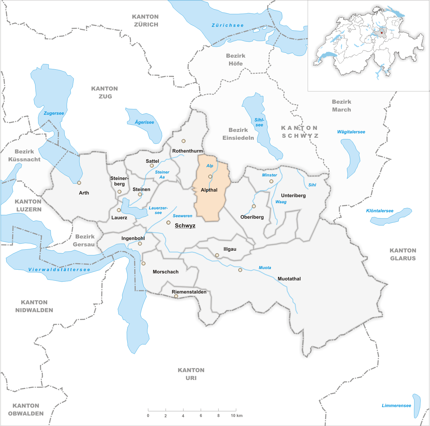 Municipality Alpthal